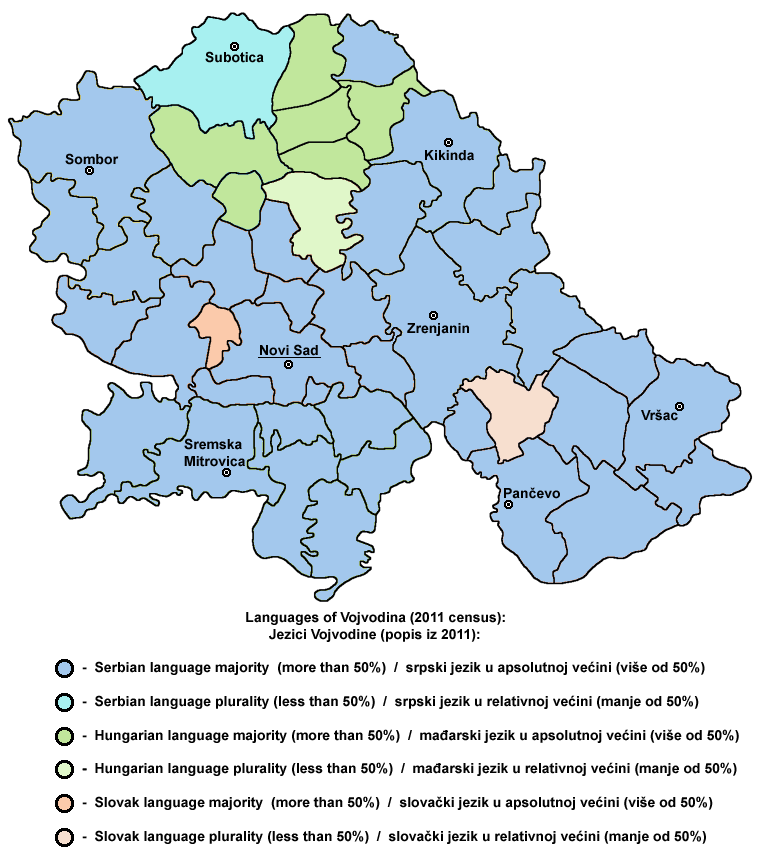 Linguistic map of Vojvodina (2011 census) - data by cities and municipalities.